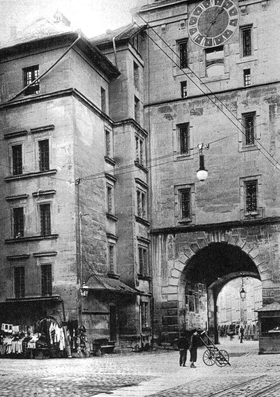 Berne: Käfigturm (eastside)